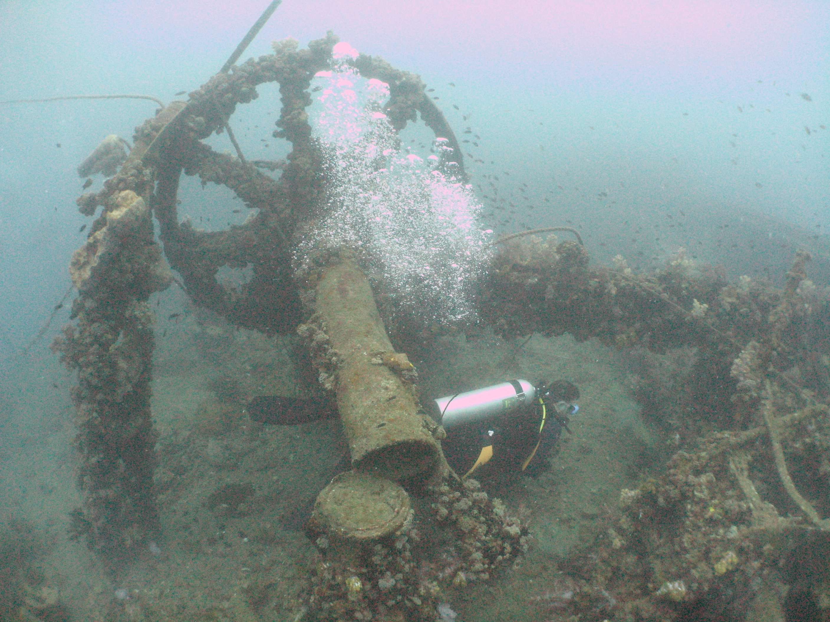 Diver (Terry Booth) on the wreck of the Igara